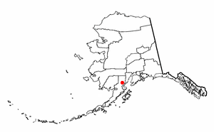 Adapted from Wikipedia's AK borough maps by Seth Ilys.